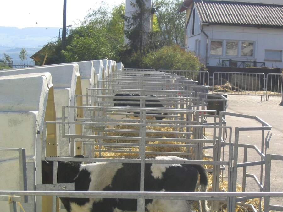 calves in igloo husbandry